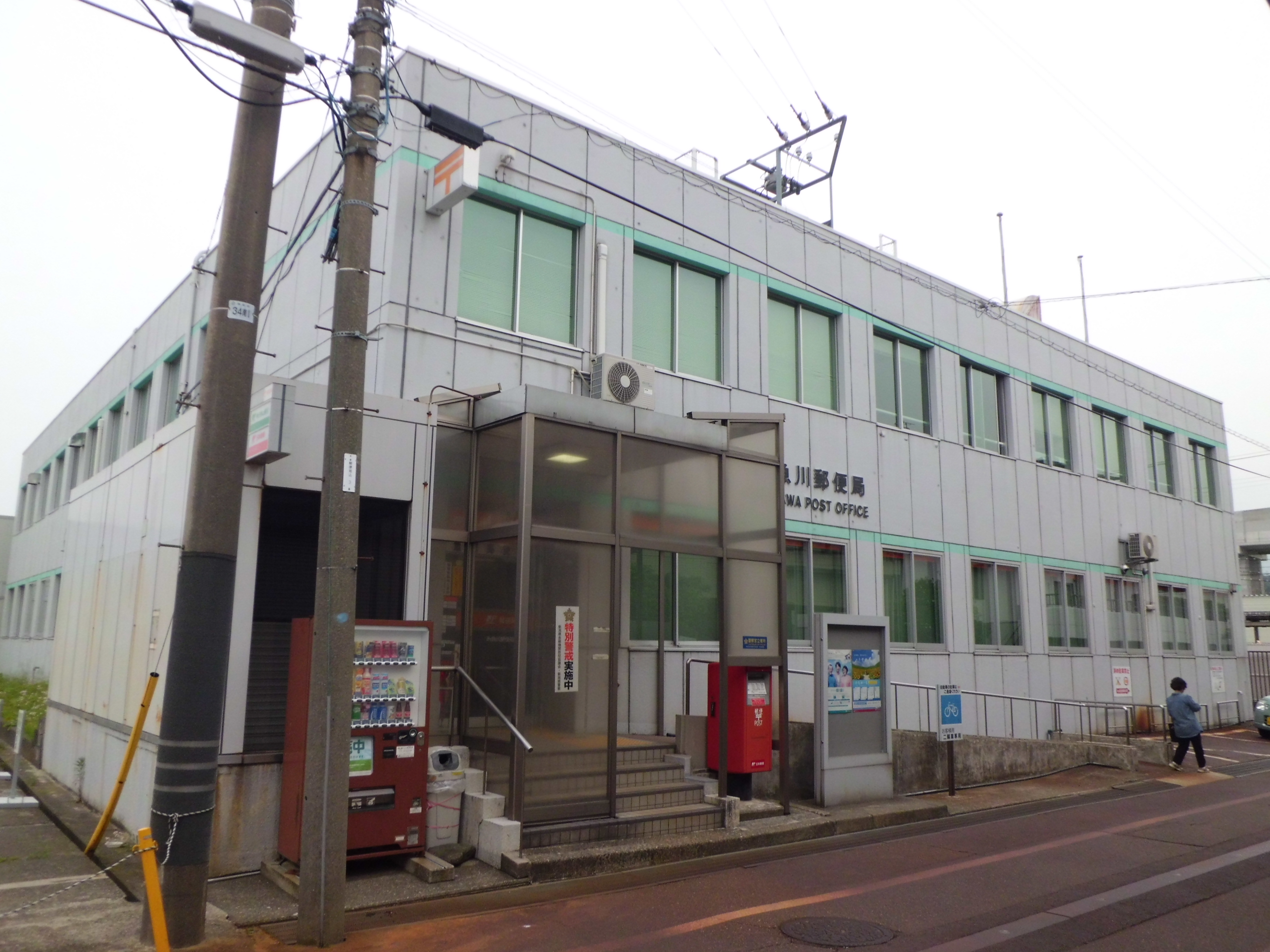 Itoigawa Post Office in Itoigawa city, Niigata prefecture, Japan.